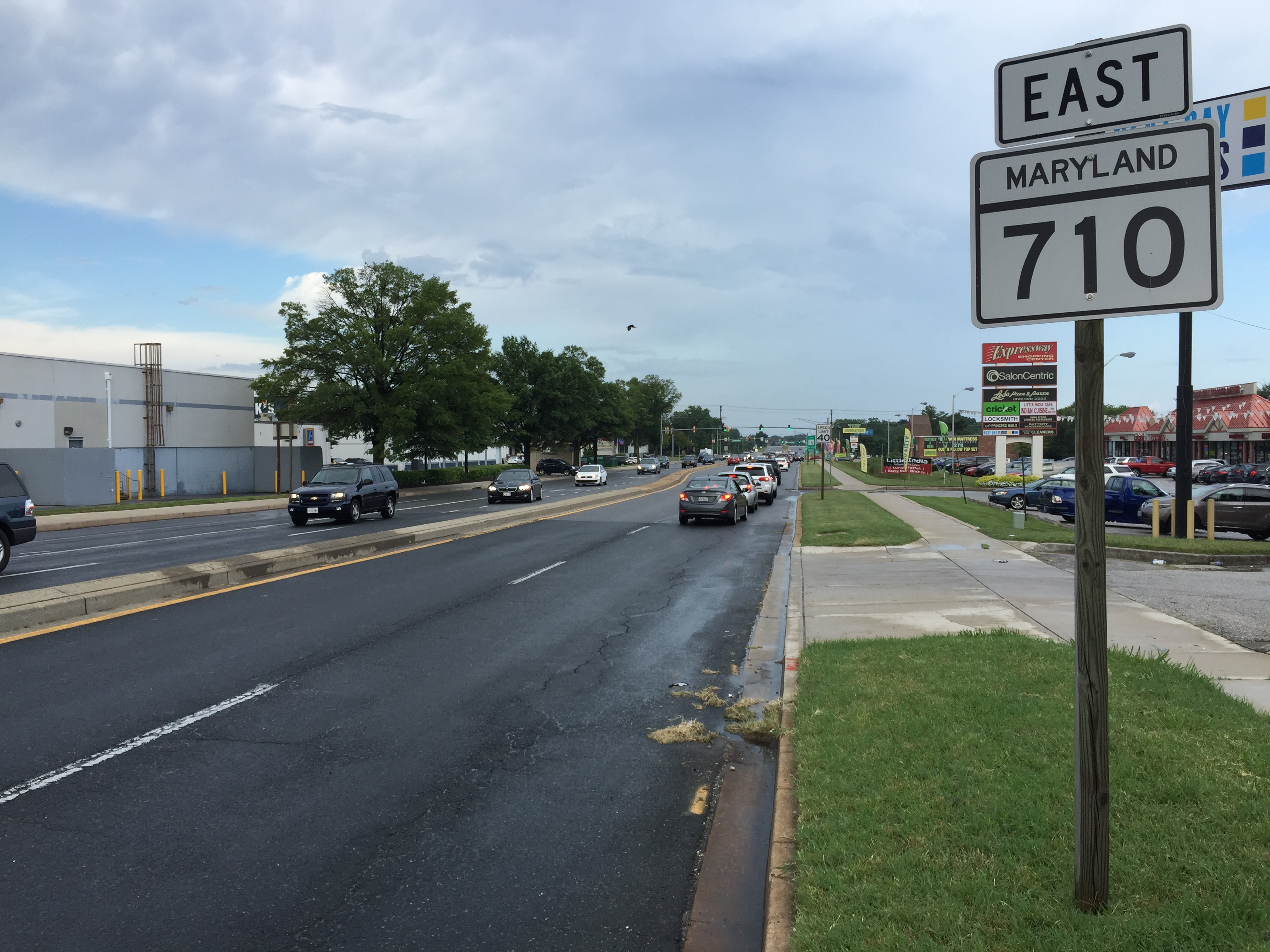 View east along Maryland State Route 710 (Ordnance Road) at Maryland State Route 2 (Governor Ritchie Highway) in Glen Burnie, Anne Arundel County, Maryland